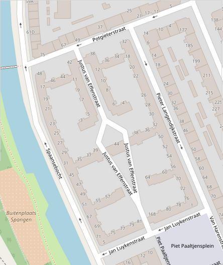 Description This map may be incomplete, and may contain errors. Don't rely solely on it for navigation. AuthorOpenStreetMap contributorsDate (see file history)SourceYou may find a page on the OpenStreetMap wiki page for Justus van Effen komplexPermission(Reusing this file) OpenStreetMap data is available under the Open Database License (details). Map tiles are licensed under the Creative Commons Attribution-ShareAlike 2.0 license (CC-BY-SA 2.0). Contains map data © OpenStreetMap contributors, made available under the terms of the Open Database License (ODbL). The ODbL does not require any particular license for maps produced from ODbL data; map tiles produced by the OpenStreetMap foundation are licensed under the CC-BY-SA-2.0 licence, but maps produced by other people may be subject to other licences.Open Database LicenseODbL